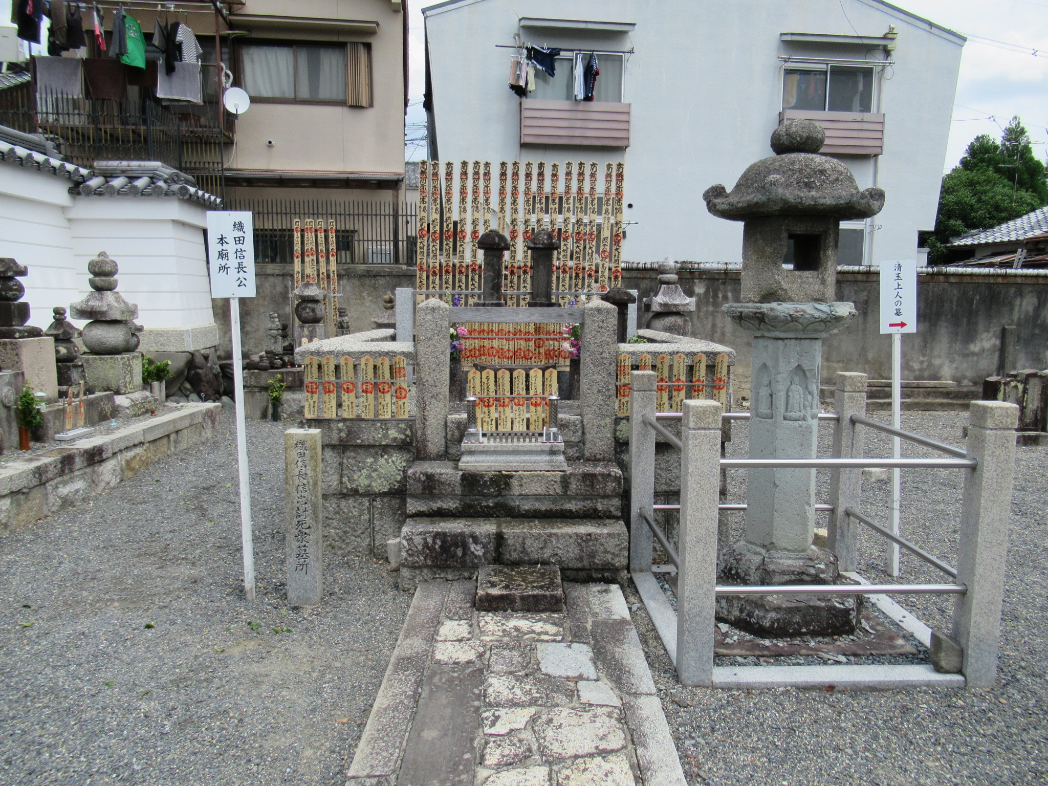 Amidaji, Kamigyo-ku, Kyoto.